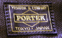 This is the logo mark of PORTER branded byYoshida & Co., Ltd.